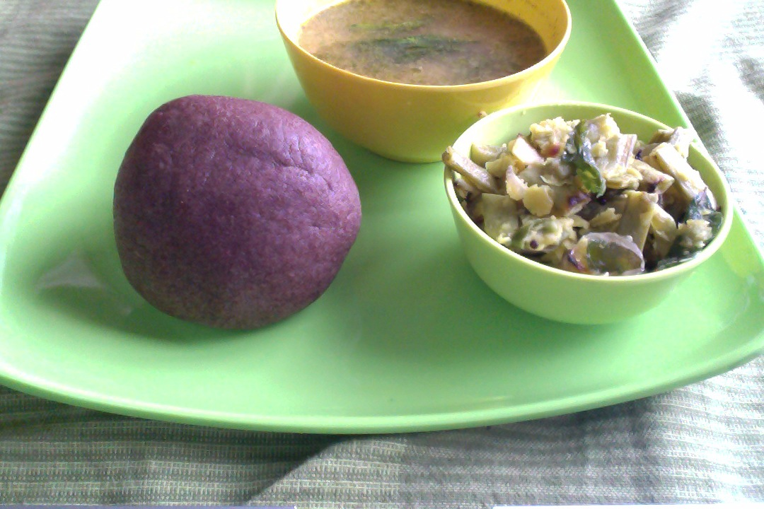 The staple diet of the farmer households in the southern districts of Karnataka. The diet includes millets, lentils, vegetables and spices. Highly nutritious, very low on fat and interestingly tasty - a wholesome meal.